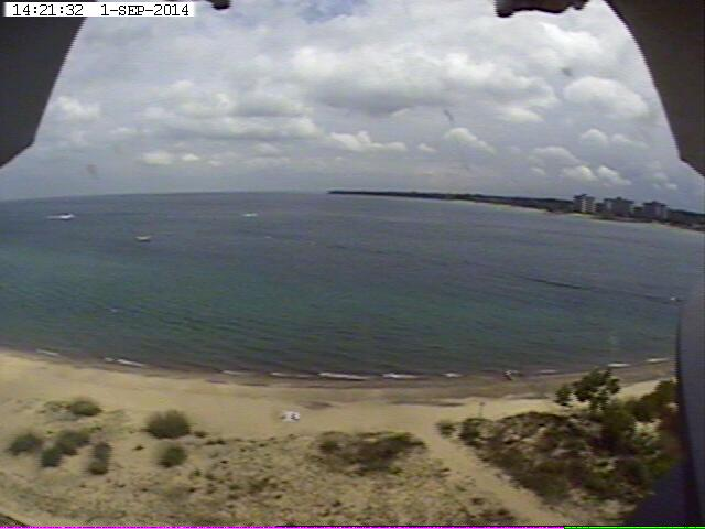 Typical view from the top of the Fort Gratiot lighthouse. The website does not seem to have been updated since 2014.